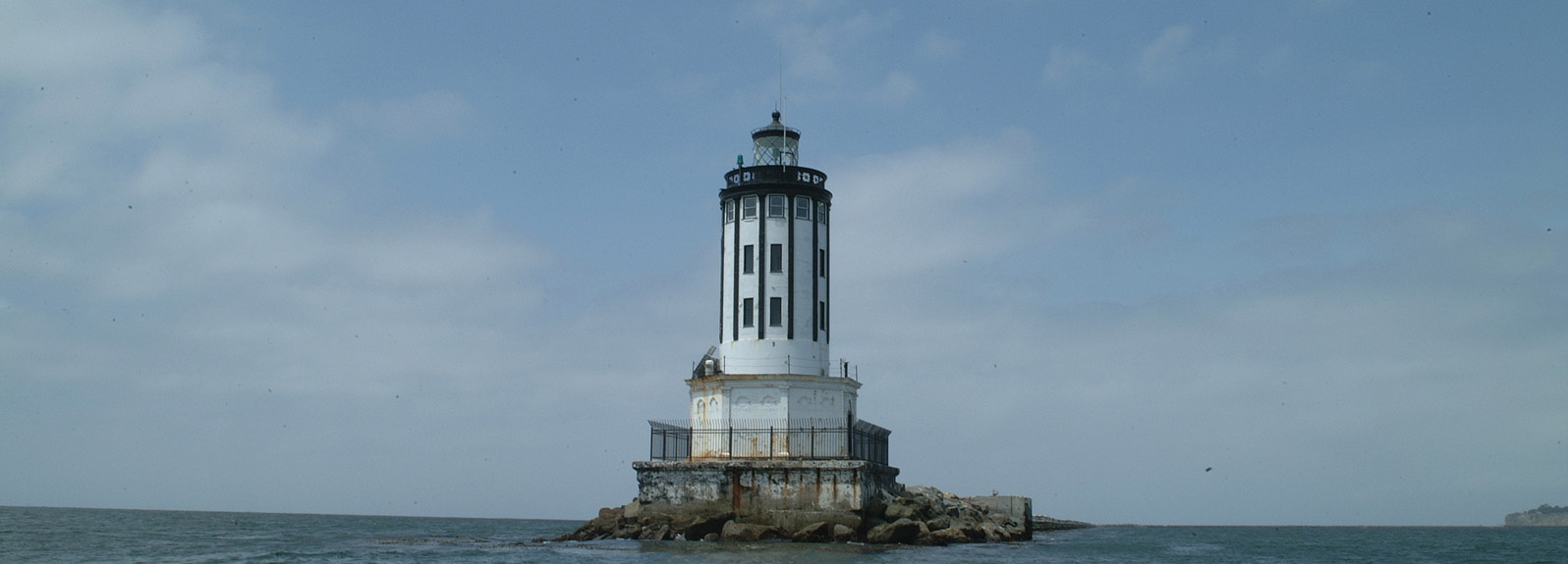 The Los Angeles Lighthouse, also known as Angel's Gate, is the only lighthouse of its kind in California. Built to withstand heavy seas, its unique structure is steel framed; the first two floors of which are steel plated. The solid design was challenged in a five day storm in the 1970s. At the end of the heavy storm, Angel's Gate remained standing, suffering only a slight list from the heavy waves that crashed upon it. The 73-foot lighthouse is located at the mounth of Los Angeles' Long Beach Port, the third largest container port in the world.